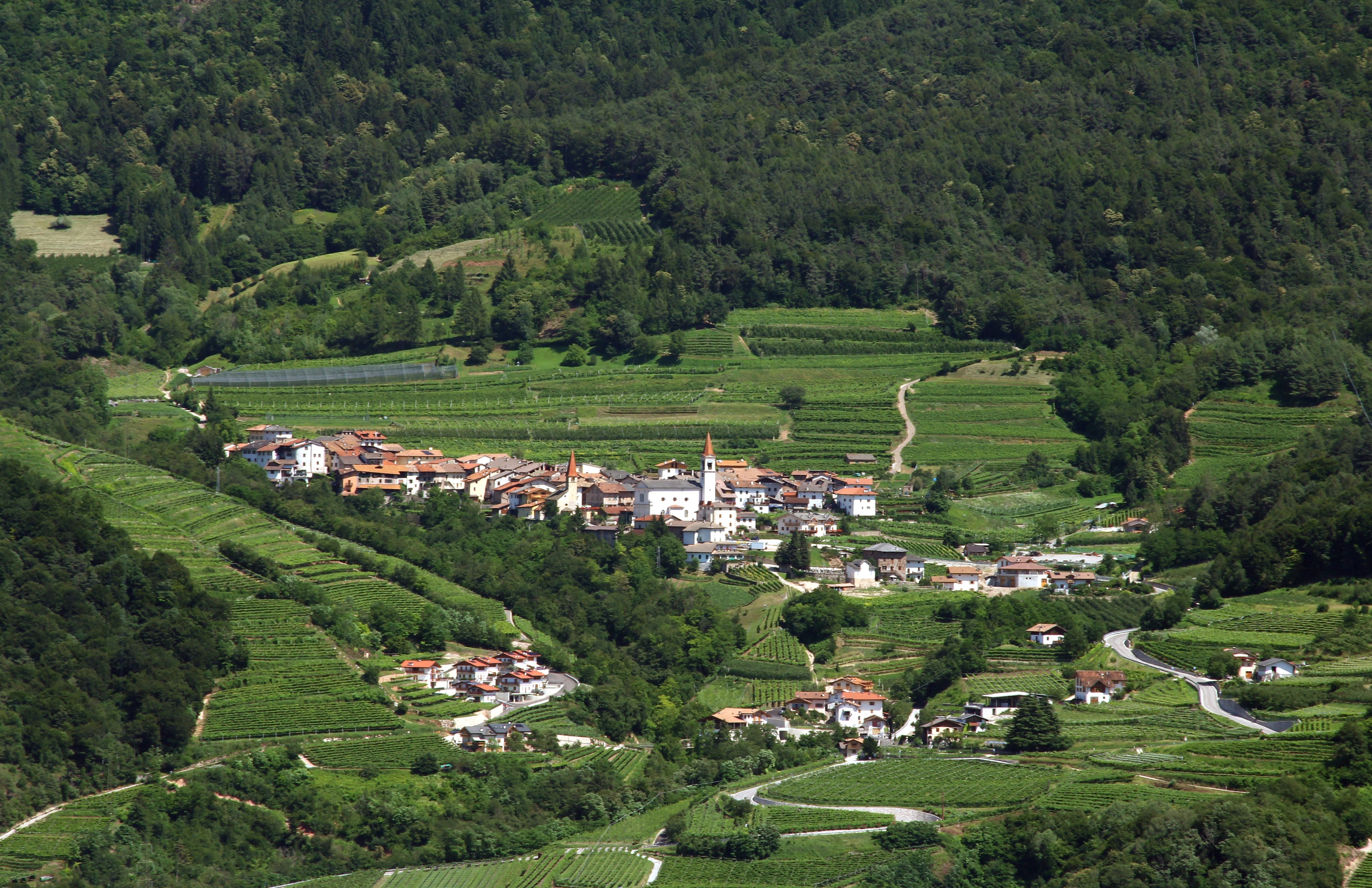 Faedo (Italy): view of Faedo from the panoramic point above Mezzolombardo.